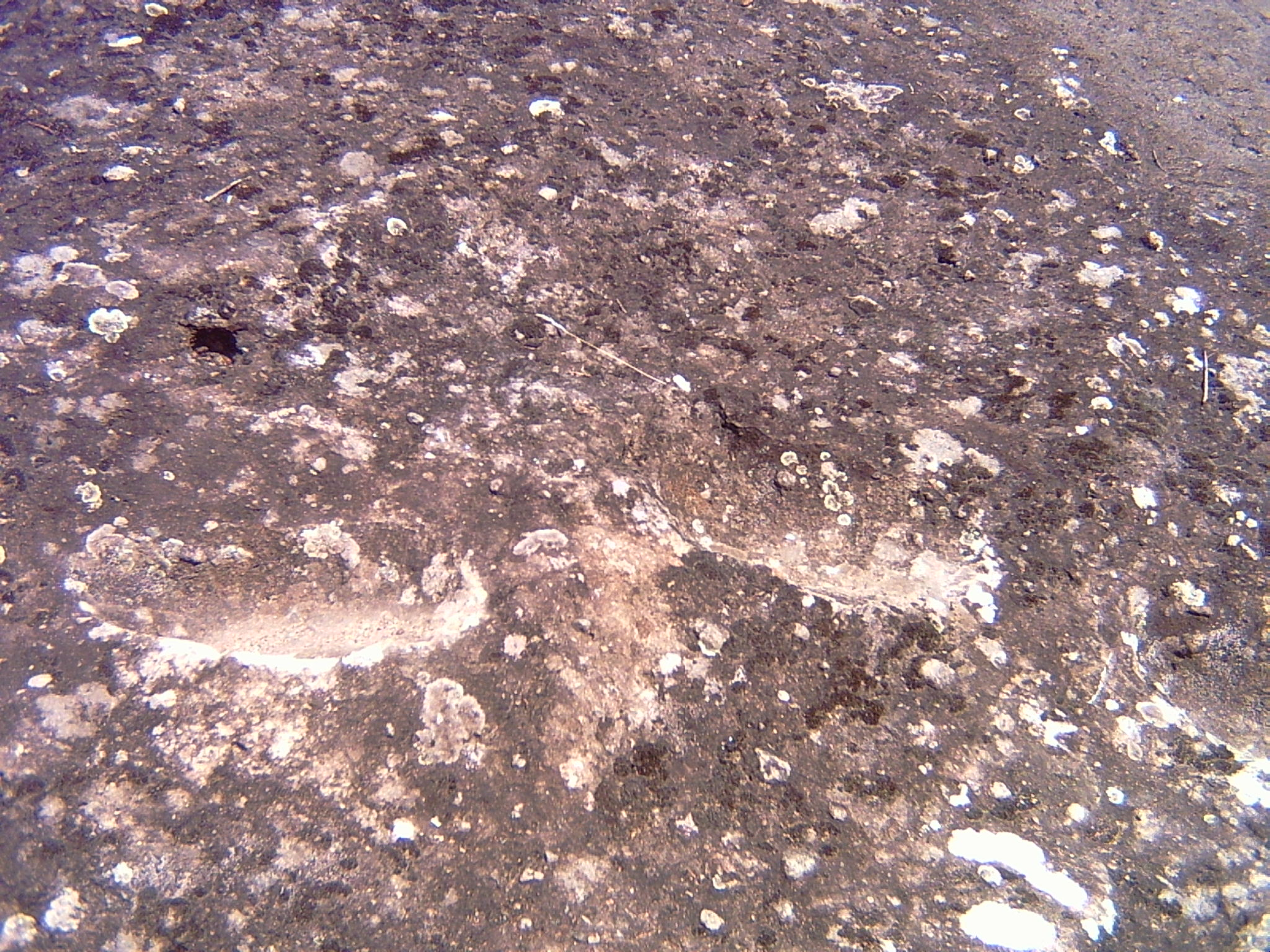 Pre-historic footprints (estimated 350.000 years old) found near Roccamonfina, Italy